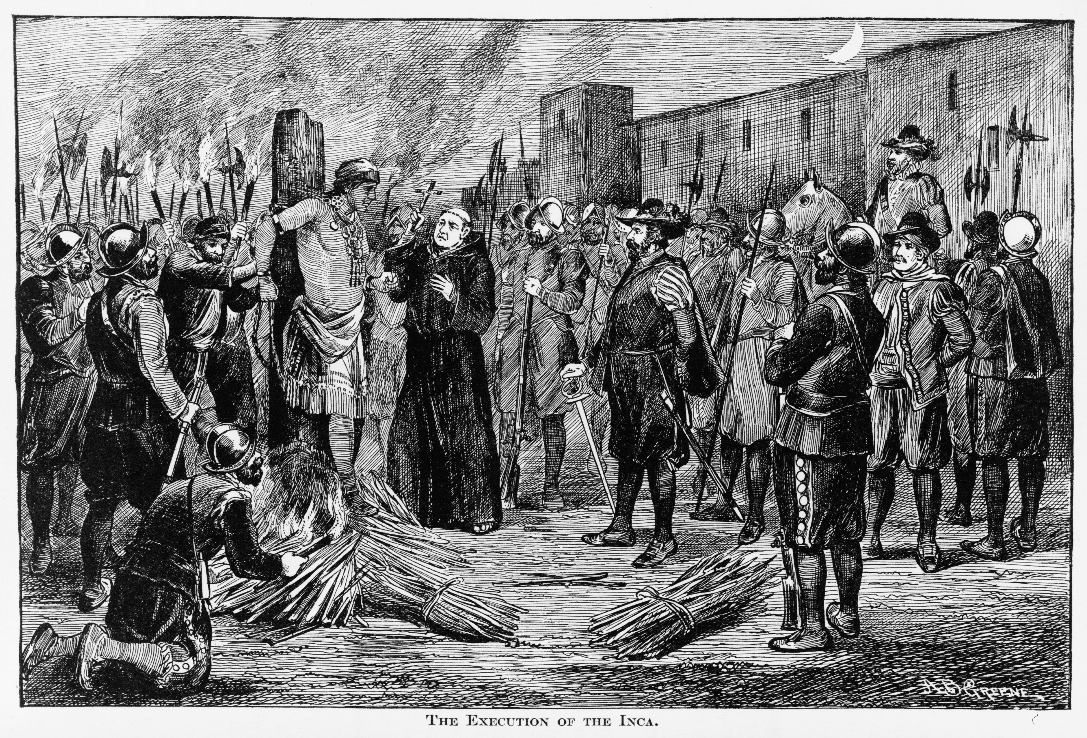 Title: The execution of the Inca. Spaniards burning Atahualpa, Inca ruler, at stake, with monk holding crucifix to right of Inca.